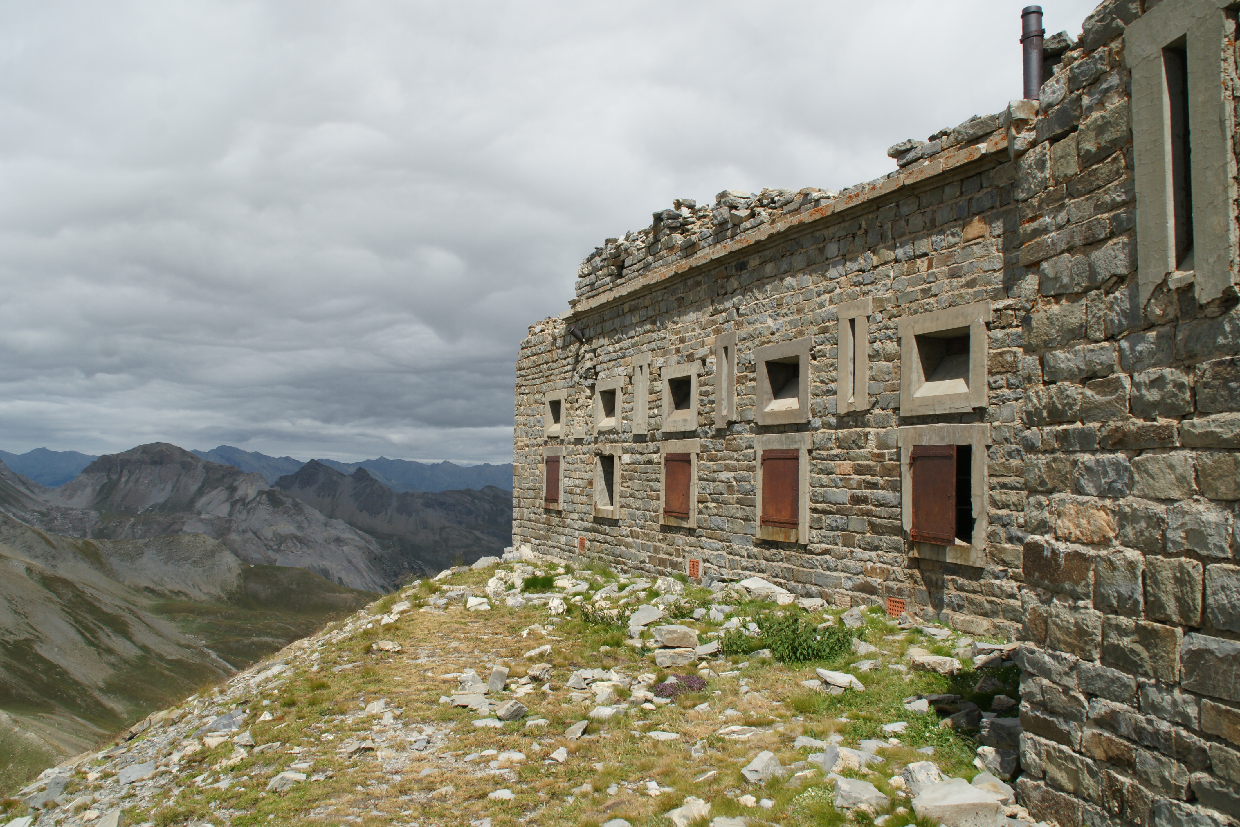 A external view of Pelousette